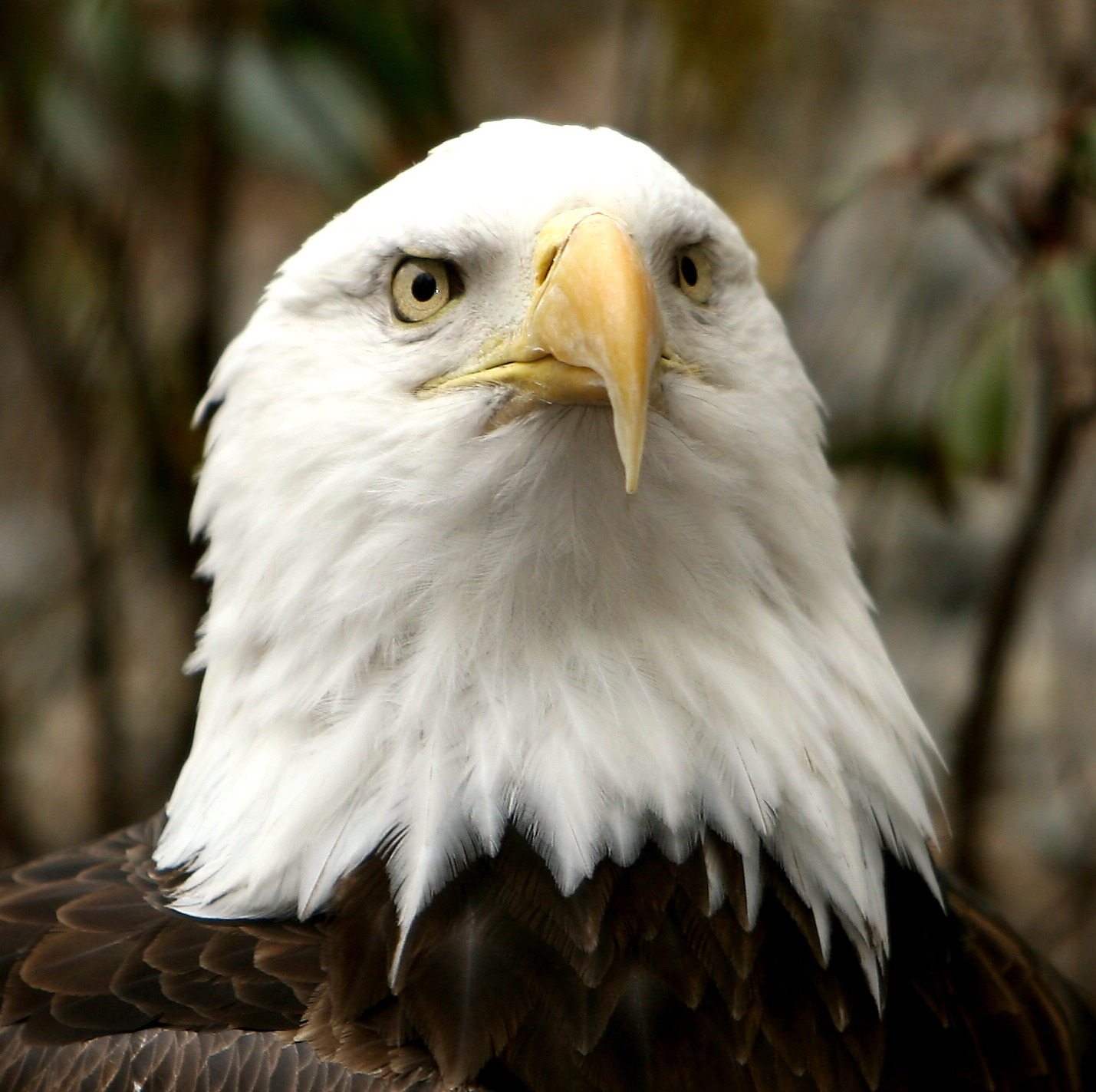 An injured female bald eagle called Samantha, now living at the national zoo in Washington, DC.